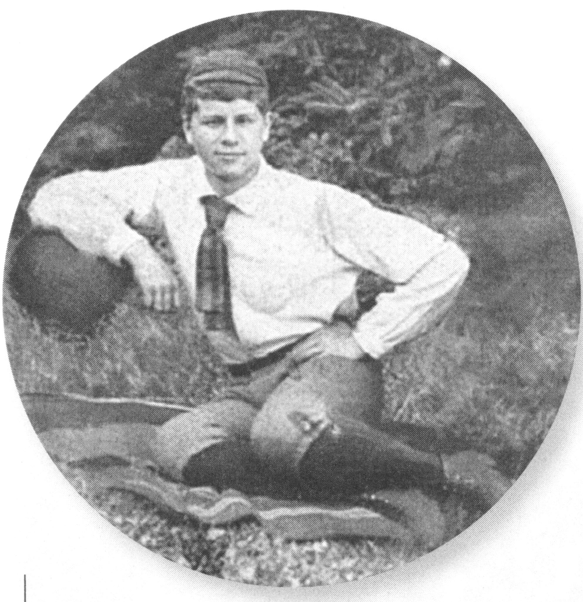 Walther Bensemann (1873—1934) in 1887